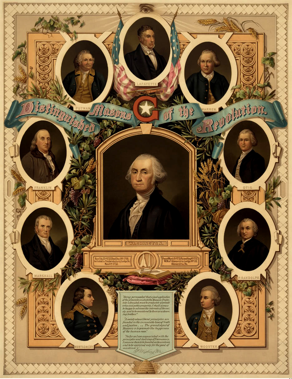 Print of "Distinguished Masons Of The Revolution.". Per description written by seller: "Lithograph showing portraits of distinguished members of the American Revolution who were also members of the Masonic Brotherhood. This lithograph features the portraits of ten Masons who played important roles in the period leading up to and immediately following the American Revolutionary War. "President and General George Washington is the focal point of the artwork and his portrait occupies the central position. Surrounding him are nine additional portraits. Starting directly above his head and moving clockwise, those portraits include: Marquis de La Fayette; Dr. (and General) Joseph Warren; James Otis, Jr.; Peyton Randolph; General David Wooster; General Richard Montgomery; Chief Justice John Marshall; Benjamin Franklin; and General Israel Putnam. "There is a variety of masonic symbols and icons scattered throughout the print. "At the bottom center, between Montgomery and Wooster, is a plate bearing an inscription that includes the signature of George Washington. This quote constitutes a powerful endorsement of masonic traditions. That inscription reads: Being persuaded that a just application of the principles on which the Masonic Fraternity is founded, must be productive of private virtue and private prosperity, I shall always be happy to advance the interests of the society, and to be considered by them as a deserving brother. A society whose liberal principles are founded in the immutable laws of truth and justice - The grand object of Masonry is to promote the happiness of the human race. So far as I am acquainted with the principles and doctrines of Freemasonry, I conceive them to be founded on benevolence, and to be exercised only for the good of mankind.